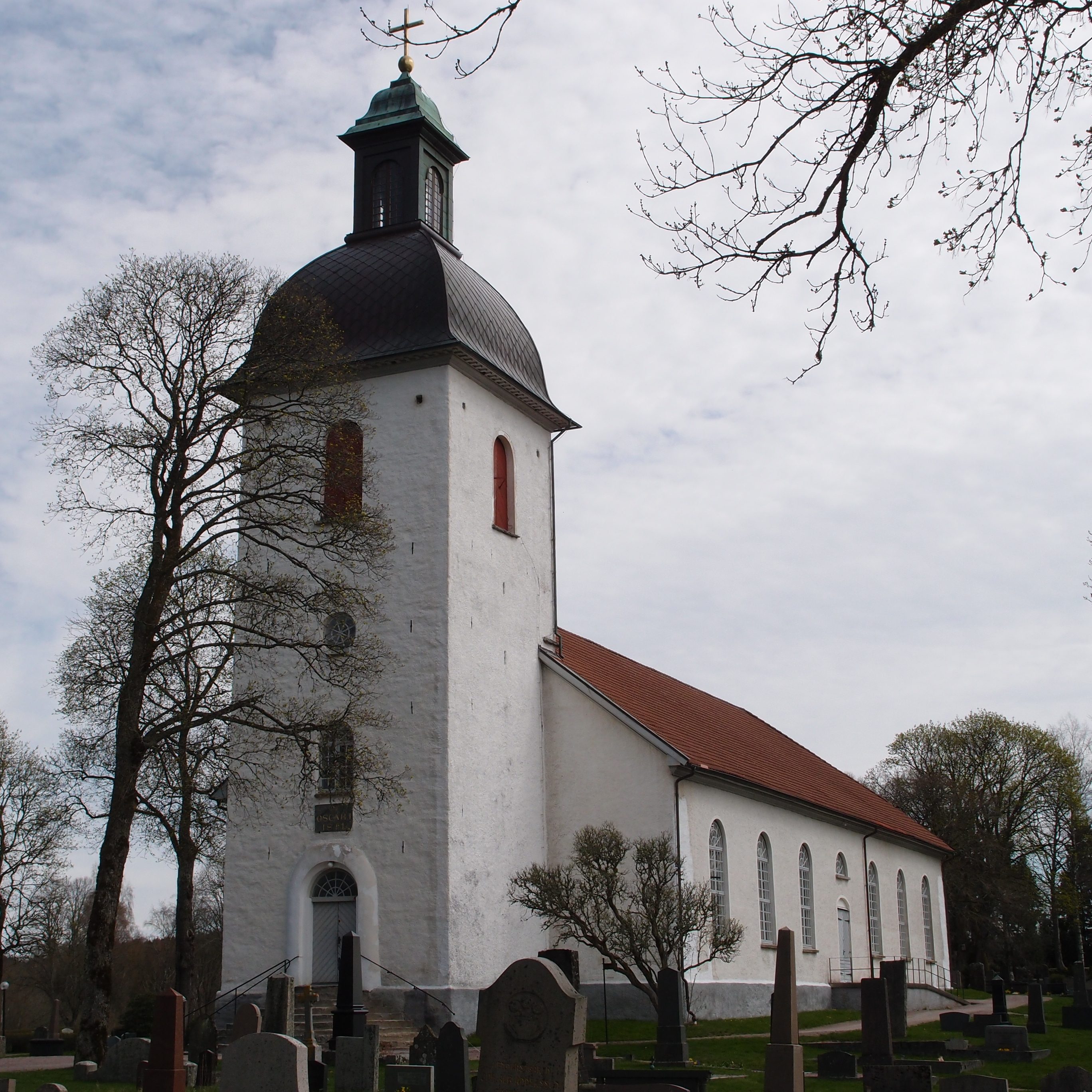 Bollebygd Church